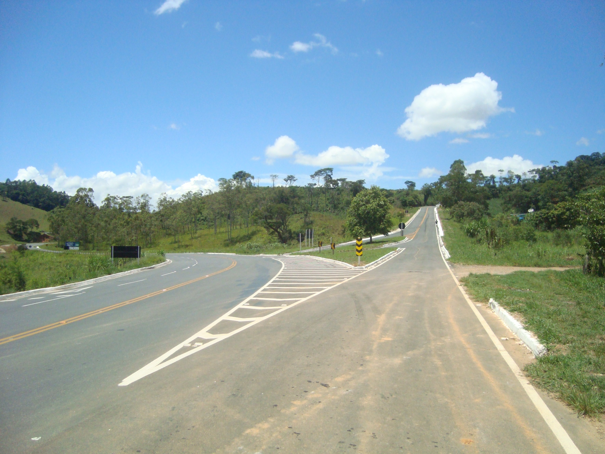 Roads MG-452 and MGC-265 in Merces, Minas Gerais, Brazil